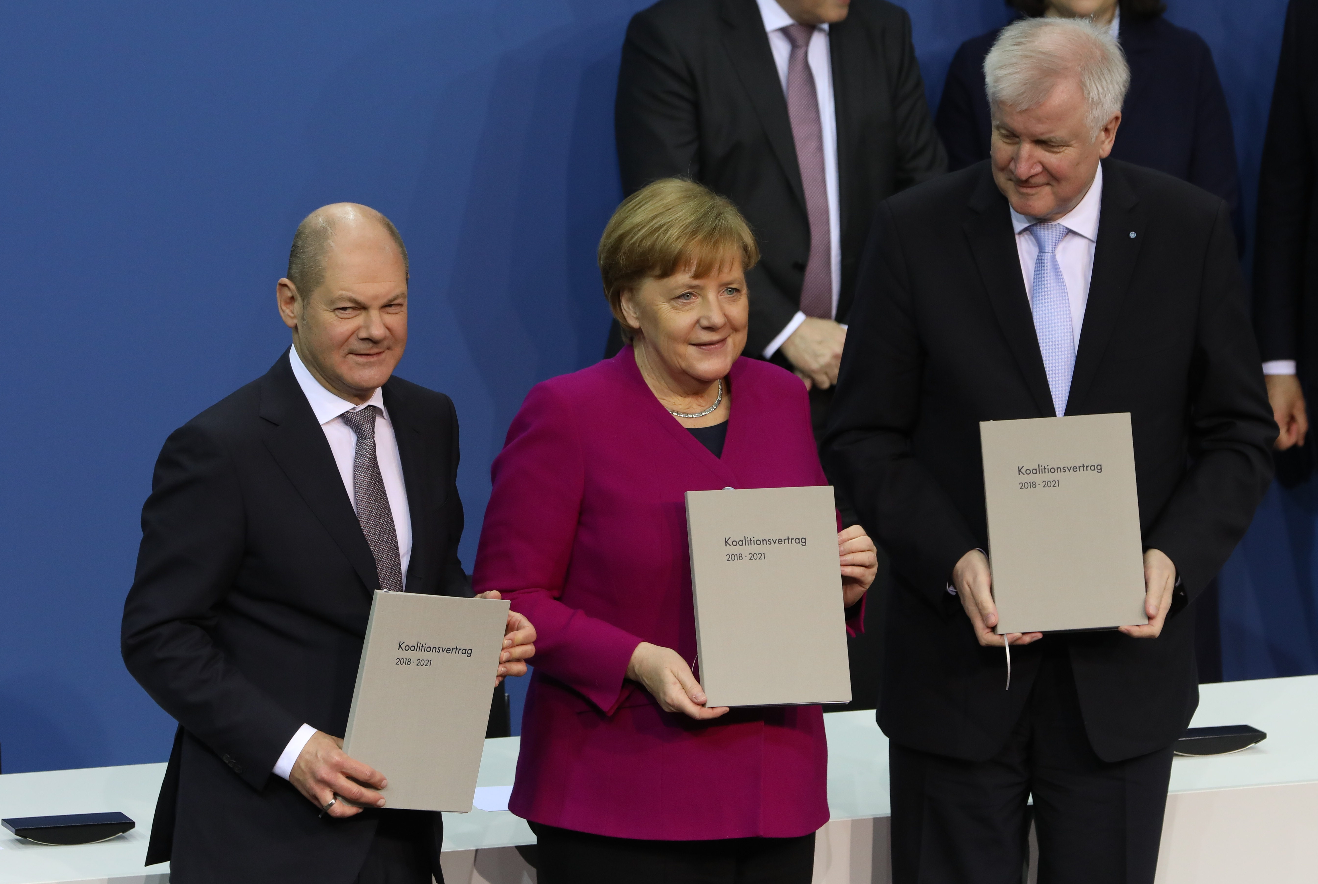 Signing of the coalition agreement for the 19th election period of the Bundestag: Olaf Scholz, Angela Merkel, Horst Seehofer